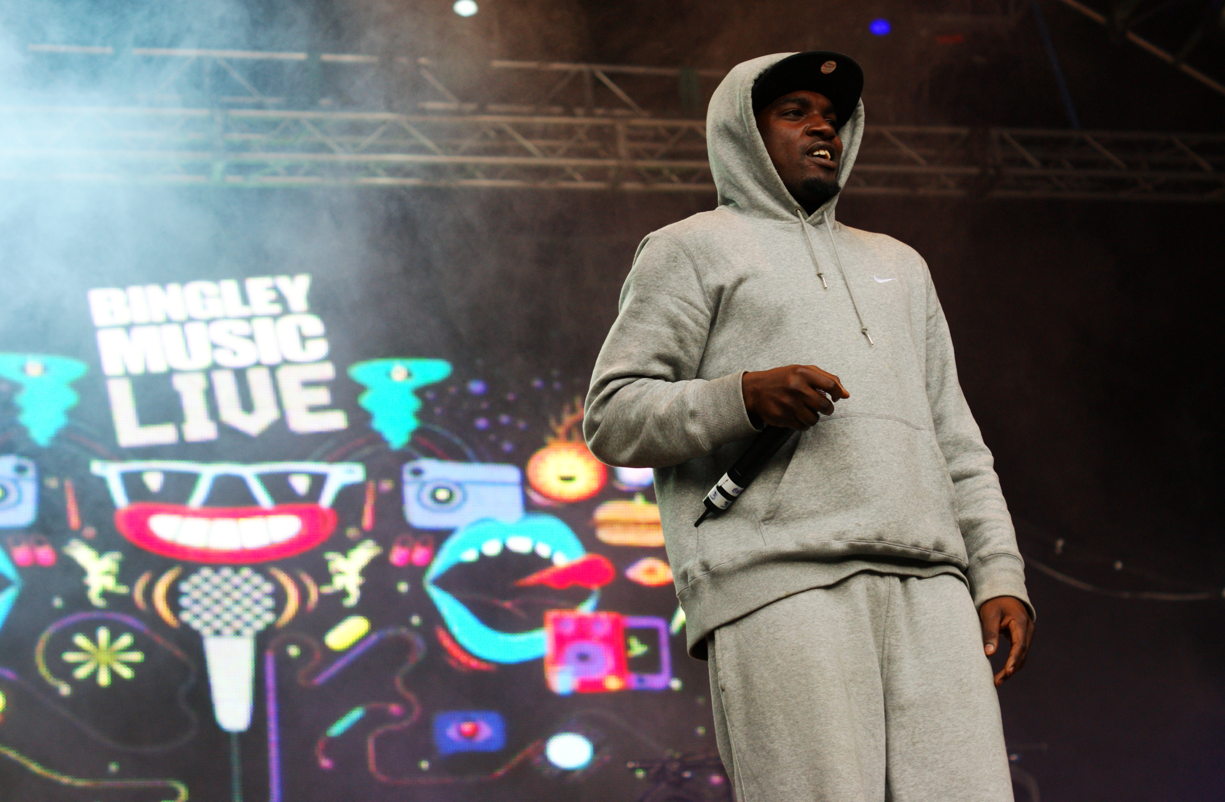 Dot Rotten performing at Bingley Music Live on Saturday the 3rd of September 2011.